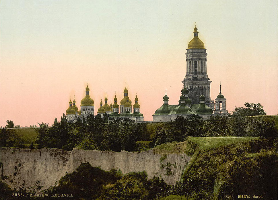 19th-century photo of the Kiev Pechersk Lavra in Kiev, Russian Empire (now Ukraine). Print no. "8988"